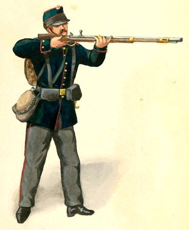 Soldier of the Free City of Lübeck, 1866